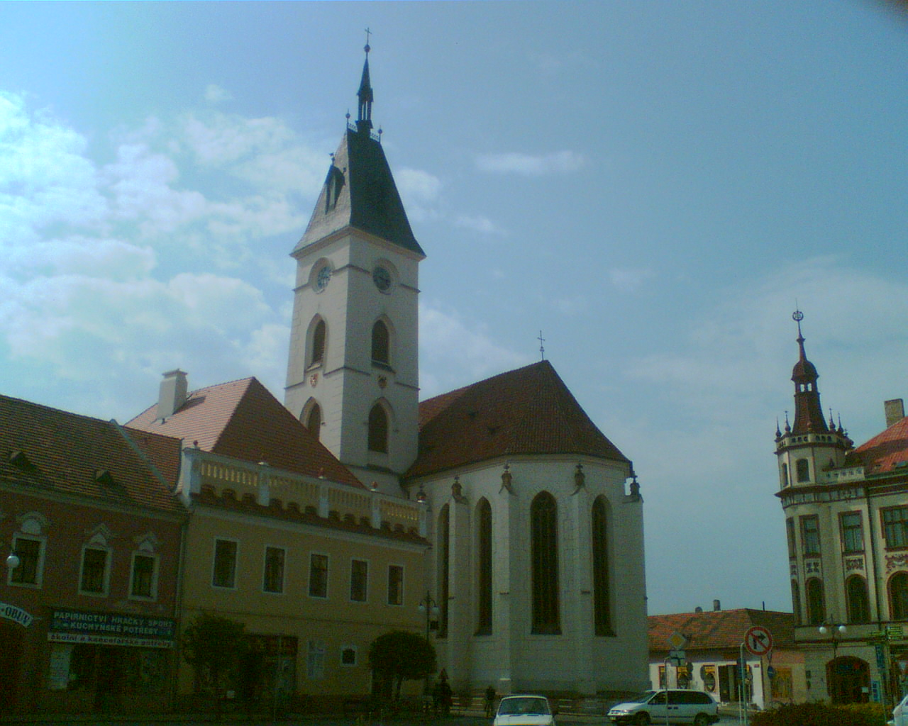 a church near square in Vodňany